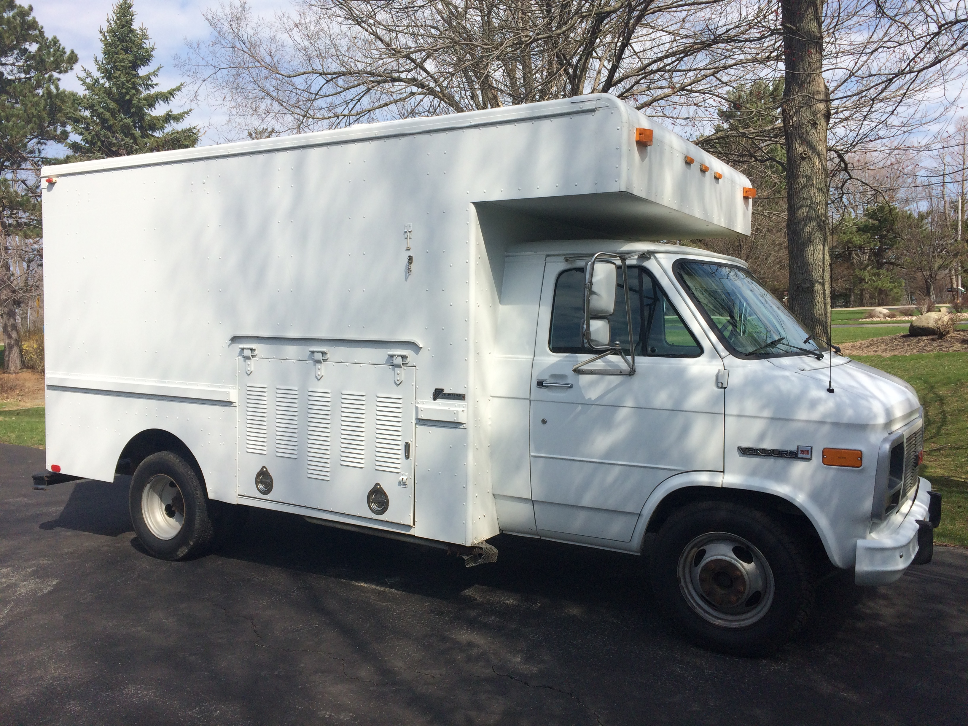 This is a 1995 Vandura 3500, previously a Verizon work truck